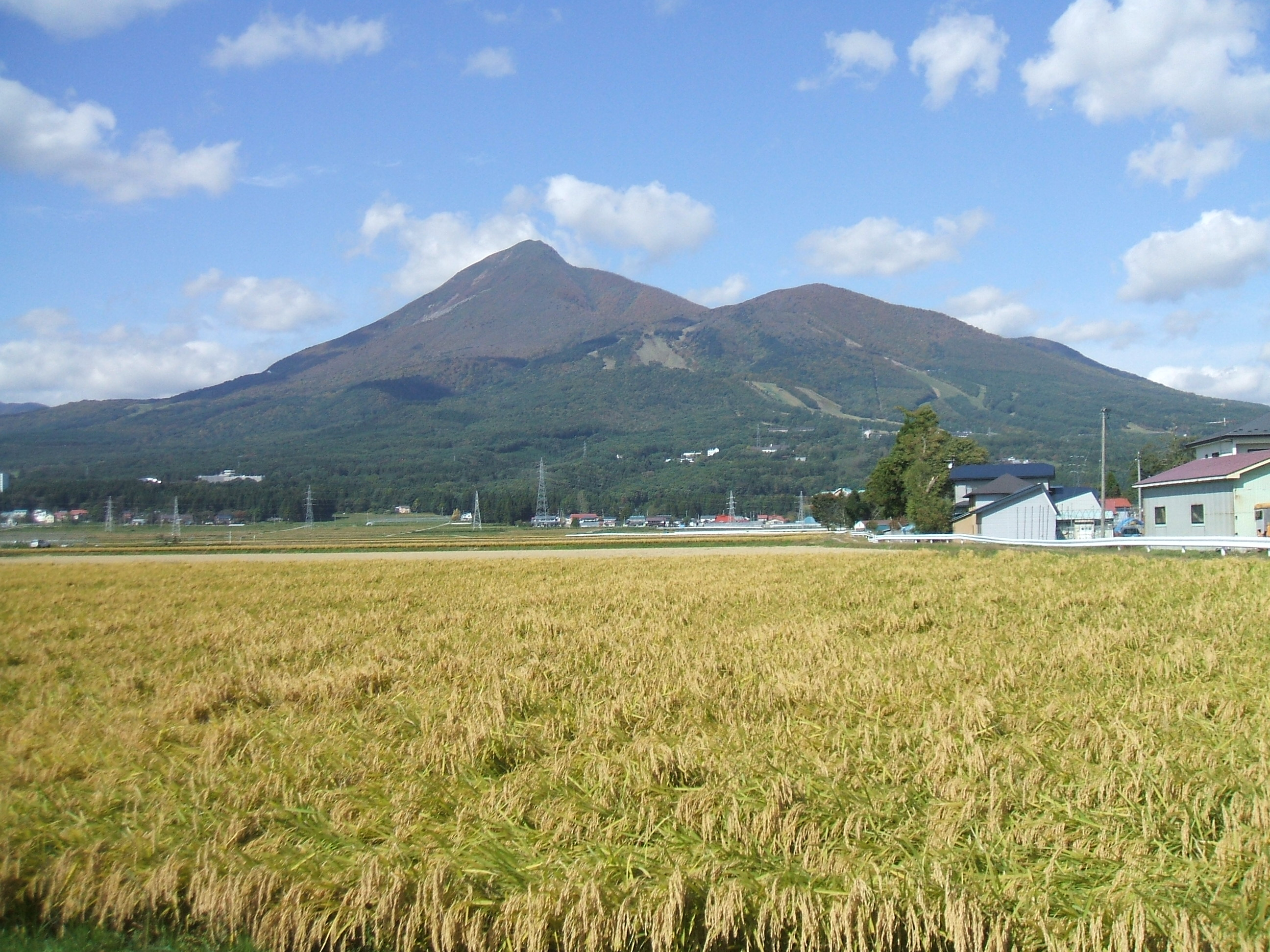 Landscape of Mount Bandai with rice farm in Autumn. Taken at Inawashiro, Fukushima.